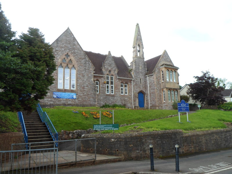 Viewed from Church Lane. This is a junior school (for pupils aged 7-11). Younger pupils attend a school elsewhere in the village.